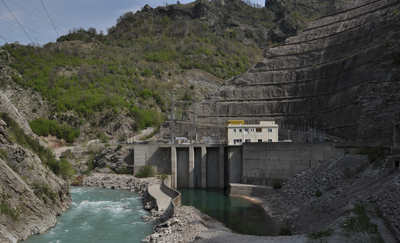 Mesochora HPP at Acheloos river, Trikala province, Greece